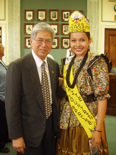 Hawaii Senator Daniel Akaka and Miss White Mountain Apache, Eileen Raneya Hill, in Washington D.C.